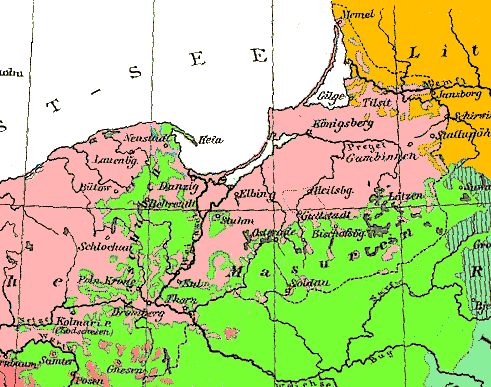 Cut of the language map of Germany form a German atlas, printed in 1880. The colours have been cleaned, but their distribution has not at all been changed.